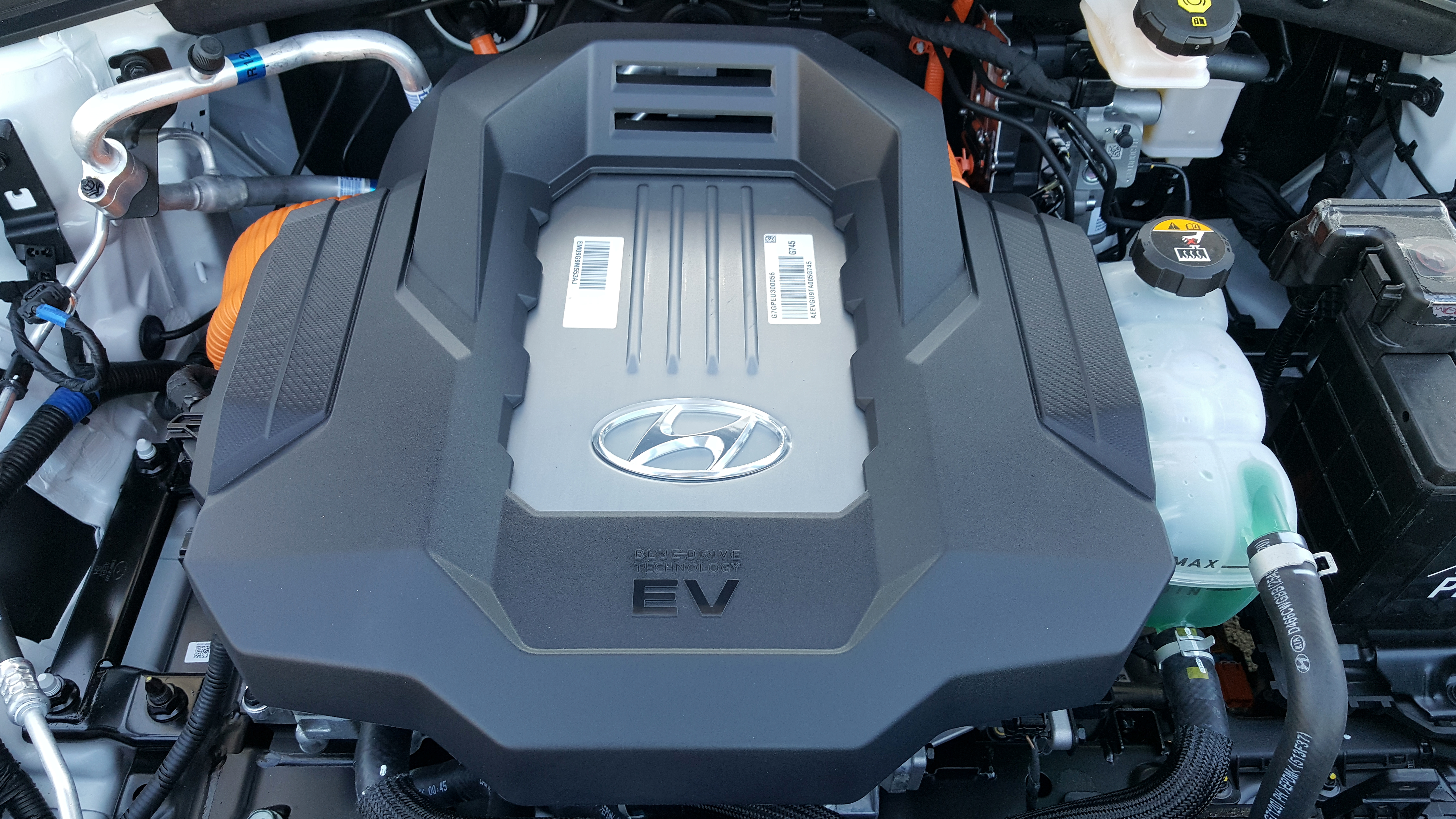 2016 Hyundai Ioniq Electric power control unit (PCU) on top of the electric motor